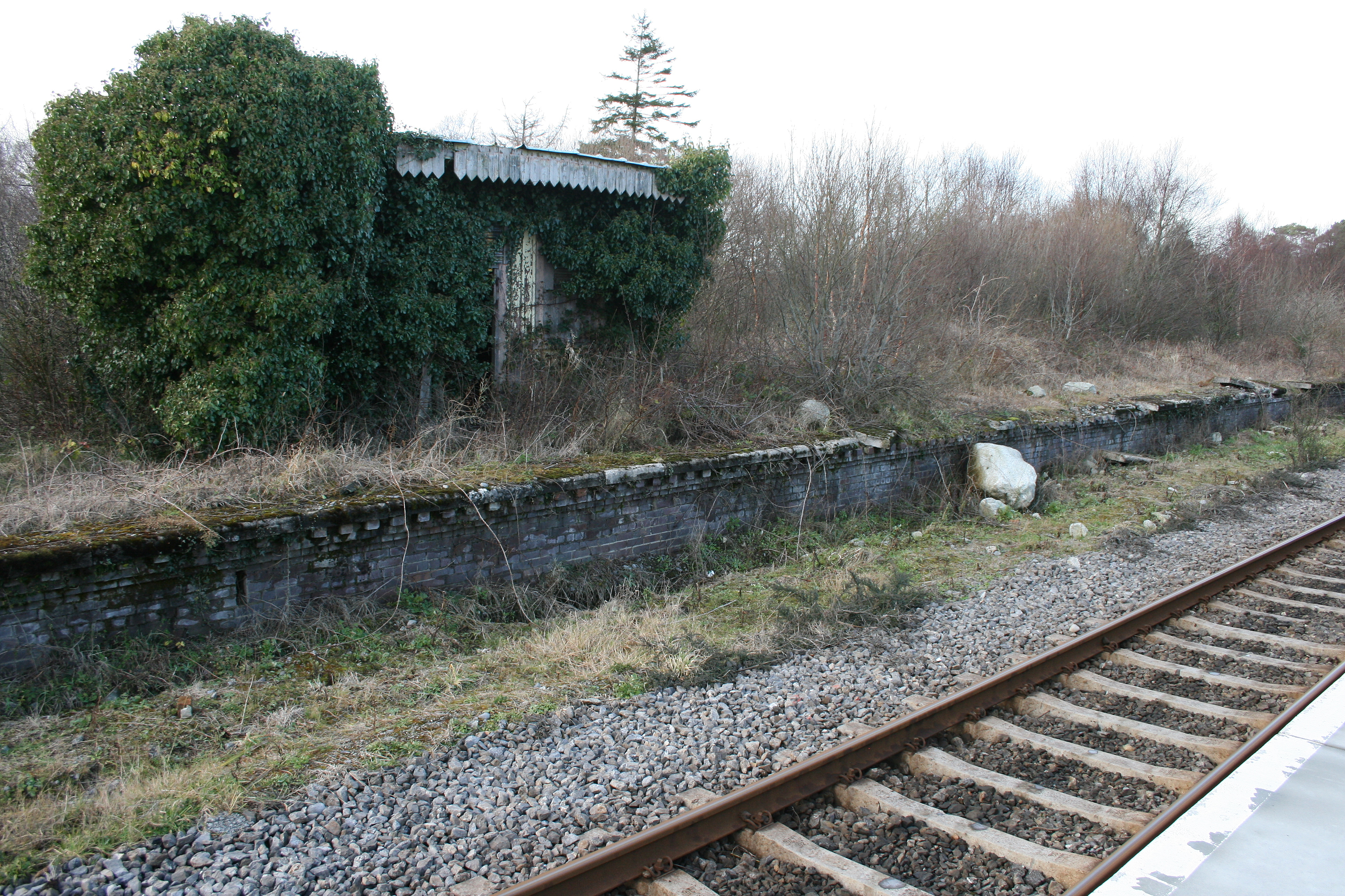 Foxford railway station, abandoned platform, County Mayo, Ireland.